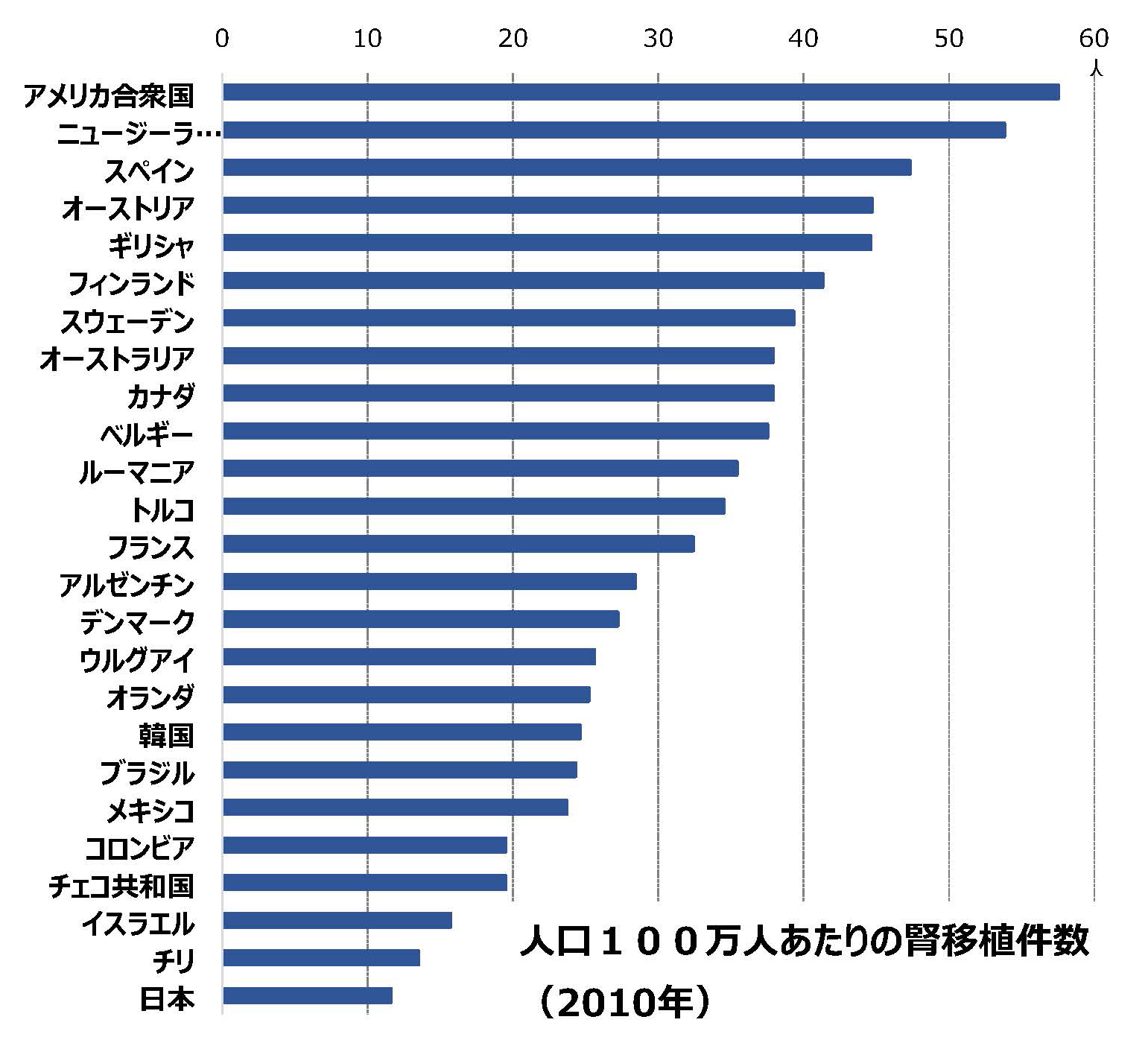 number of kidney transplantations per million population